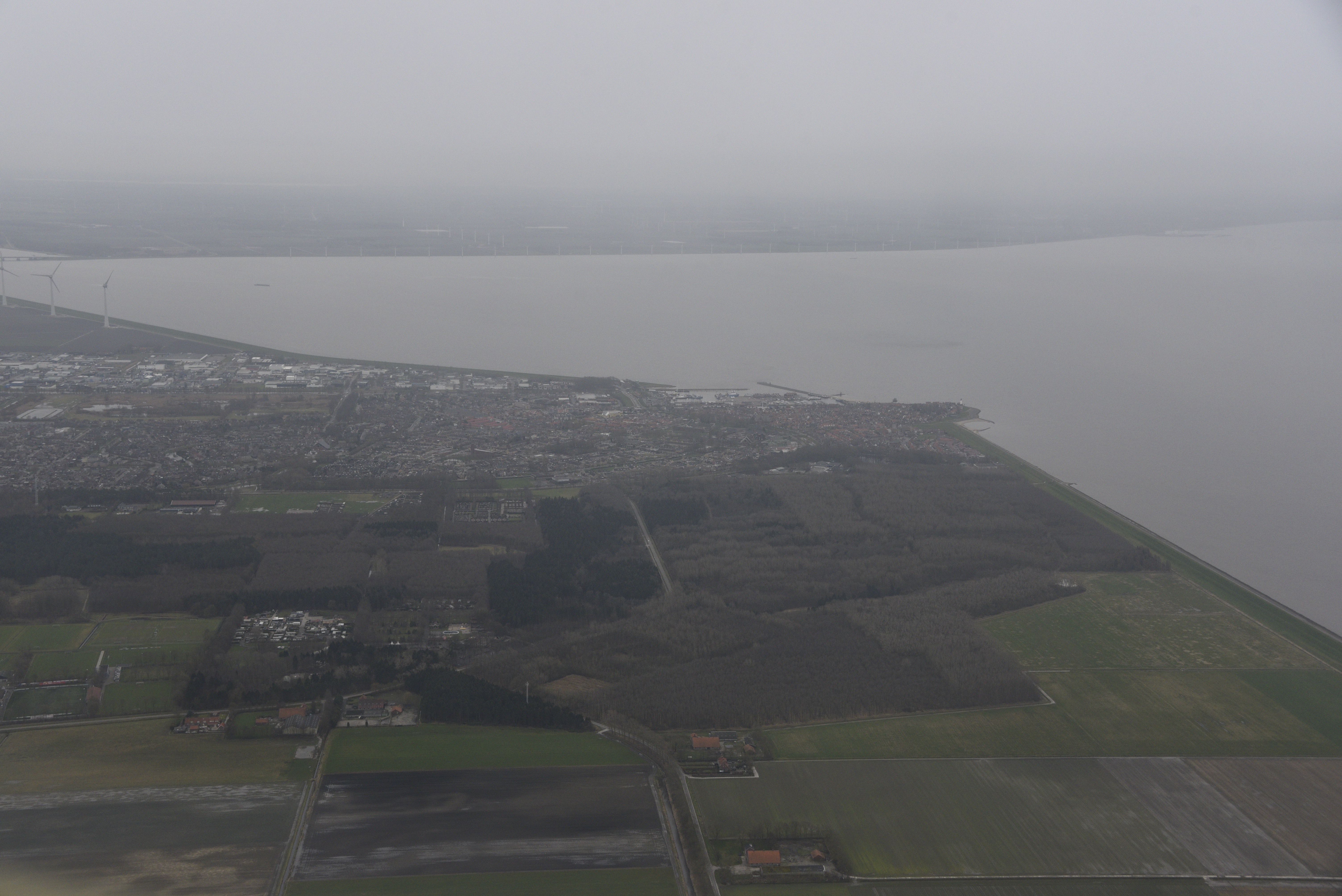 Urkerbos